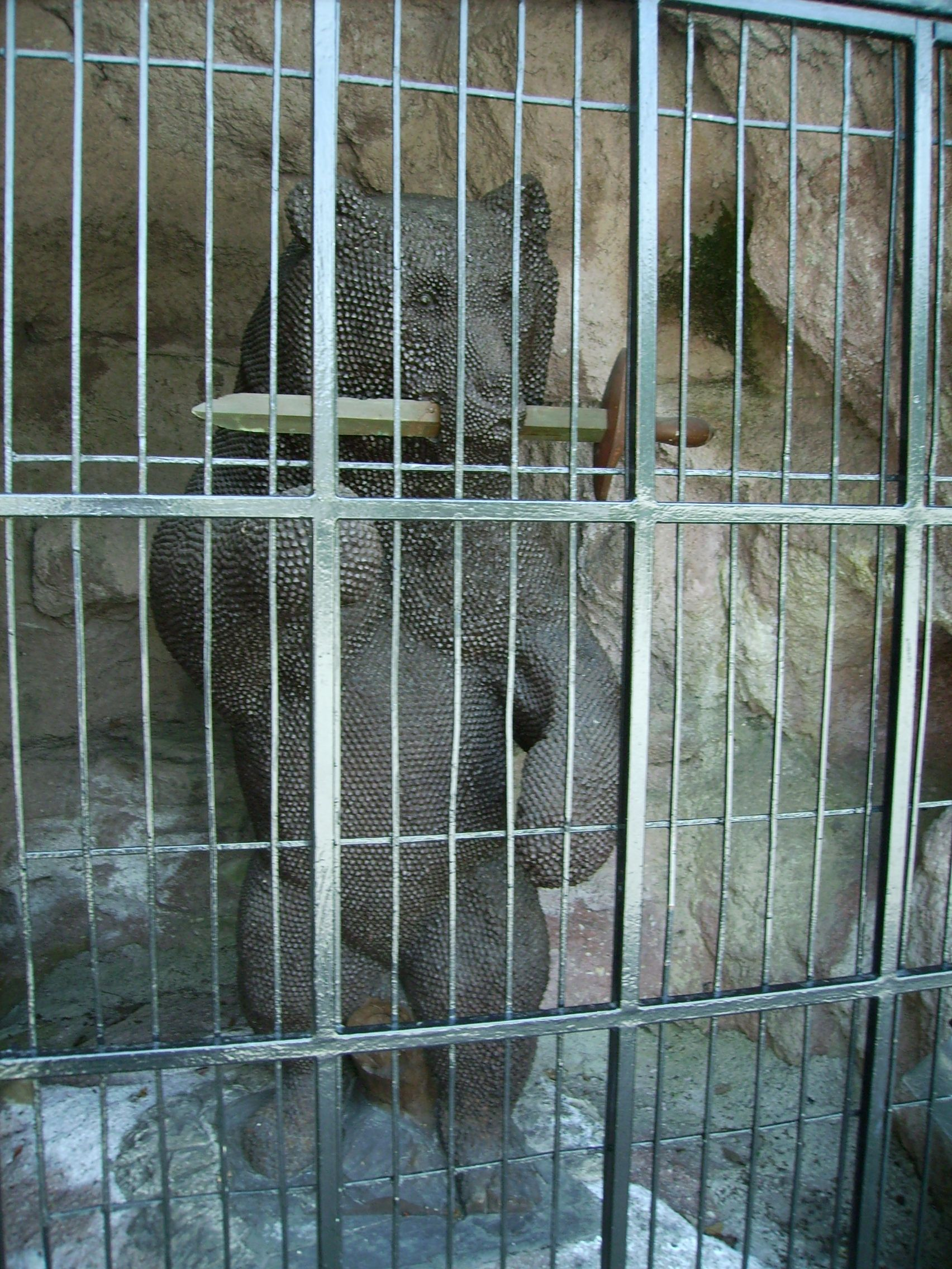 Bear nailed in Berndorf, Lower Austria